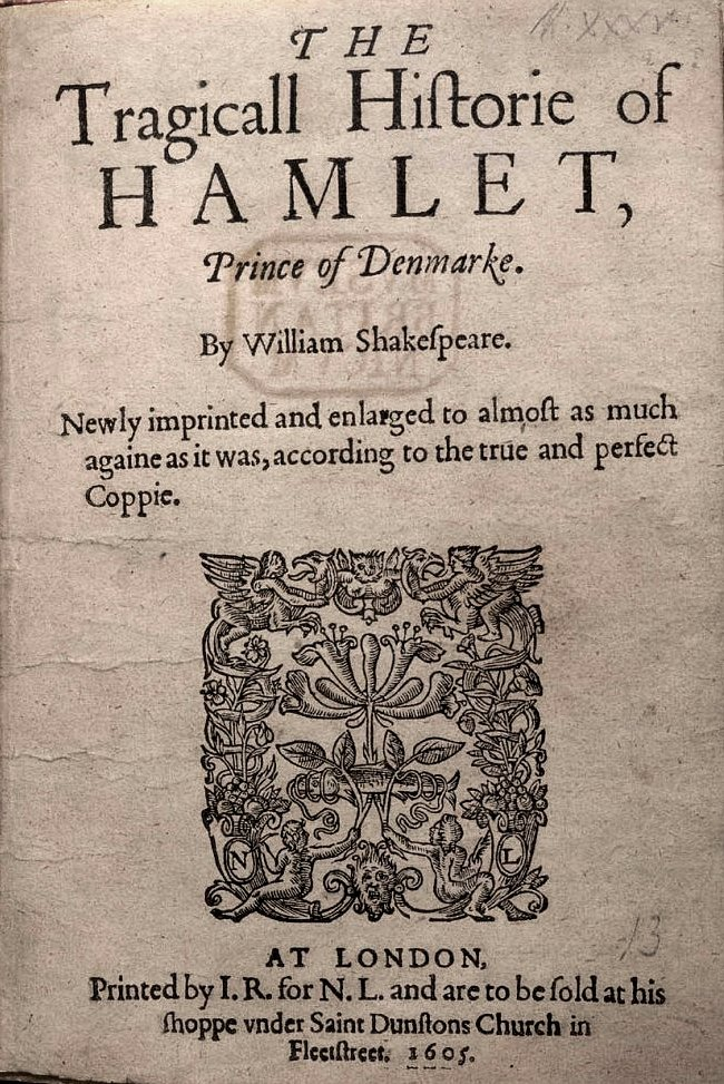 Title page of Hamlet (1605)